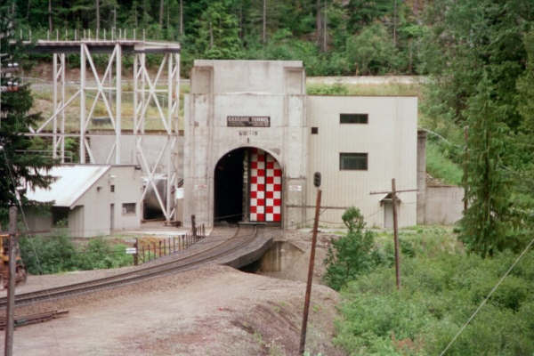 Cascade Tunnel (Washington)